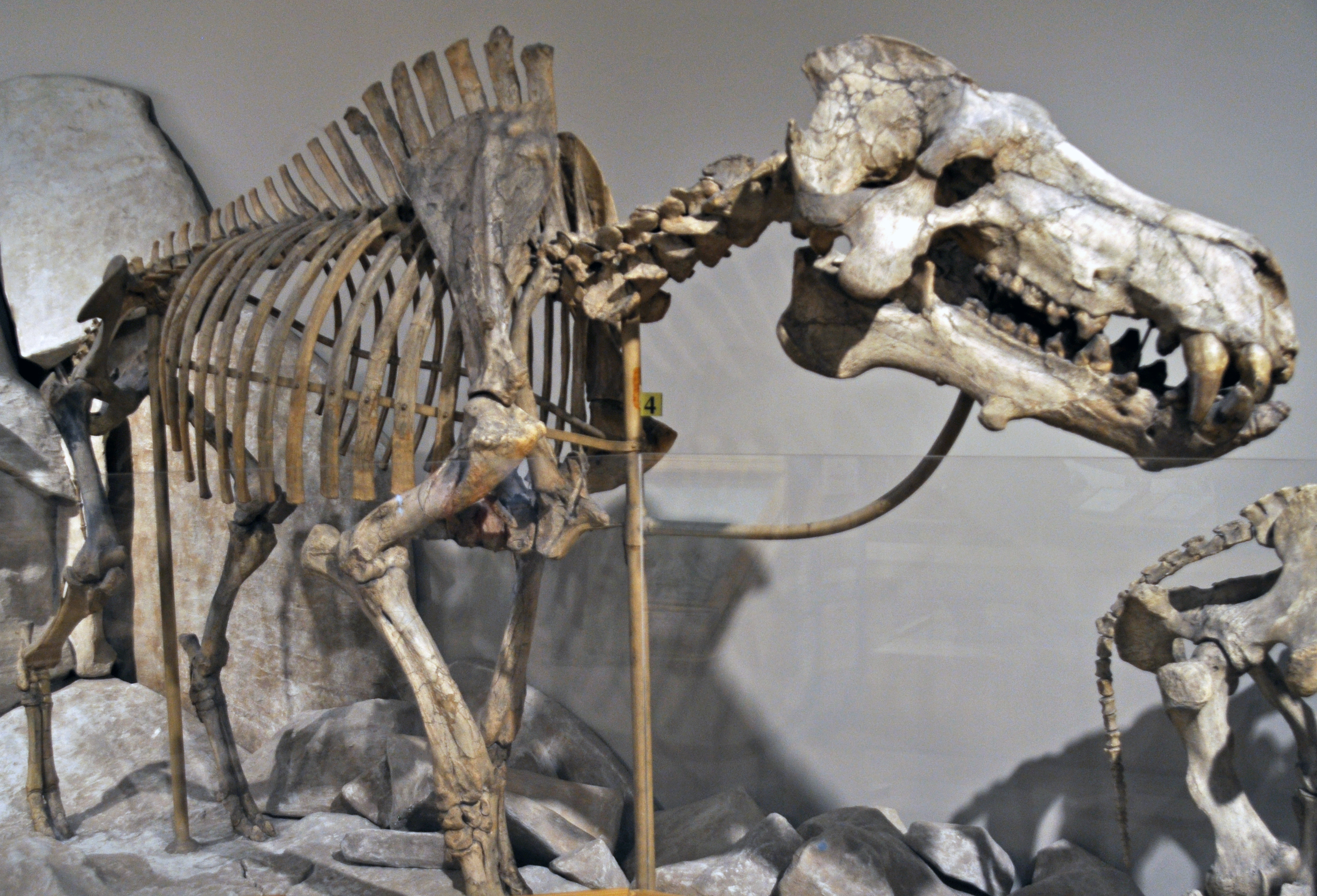 Dinohyus hollandi Peterson, 1905 - fossil mammal skeleton from the Miocene of Nebraska, USA. (CM 1594, Carnegie Museum of Natural History, Pittsburgh, Pennsylvania, USA) Also known as Daeodon hollandi. This is the holotype skeleton of Dinohyus hollandi, a Tertiary-aged entelodont mammal from Nebraska. From museum signage: At six-feet tall, Dinohyus more than earns its Latin name, terrible pig. It was the last and largest entelodont of North America. It was an omnivore, which means it ate pretty much whatever it wanted. Its large head was ornamented with bony projections. Classification: Animalia, Chordata, Vertebrata, Mammalia, Placentalia, Artiodactyla, Entelodontidae Stratigraphy: lower Harrison Formation, Harrisonian, Lower Miocene Locality: Agate Springs Fossil Quarry, near Agate, Sioux County, western Nebraska, USA See info. at: and